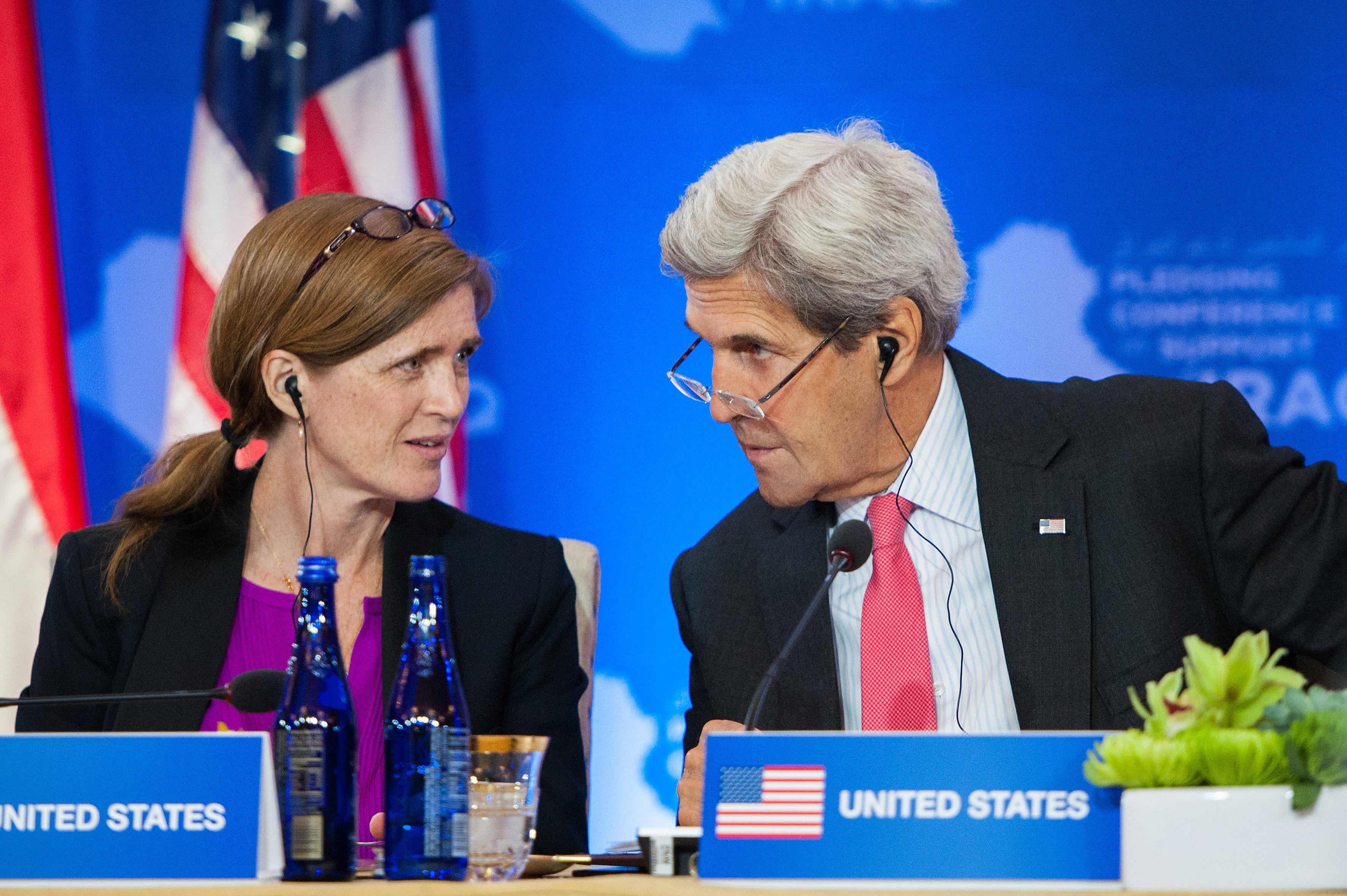 United States Ambassador to the United Nations Samantha Power and U.S. Secretary of State John Kerry chat during the Pledging Conference in Support of Iraq at the U.S. Department of State in Washington, D.C. on July 20, 2016. [State Department Photo/ Public Domain]